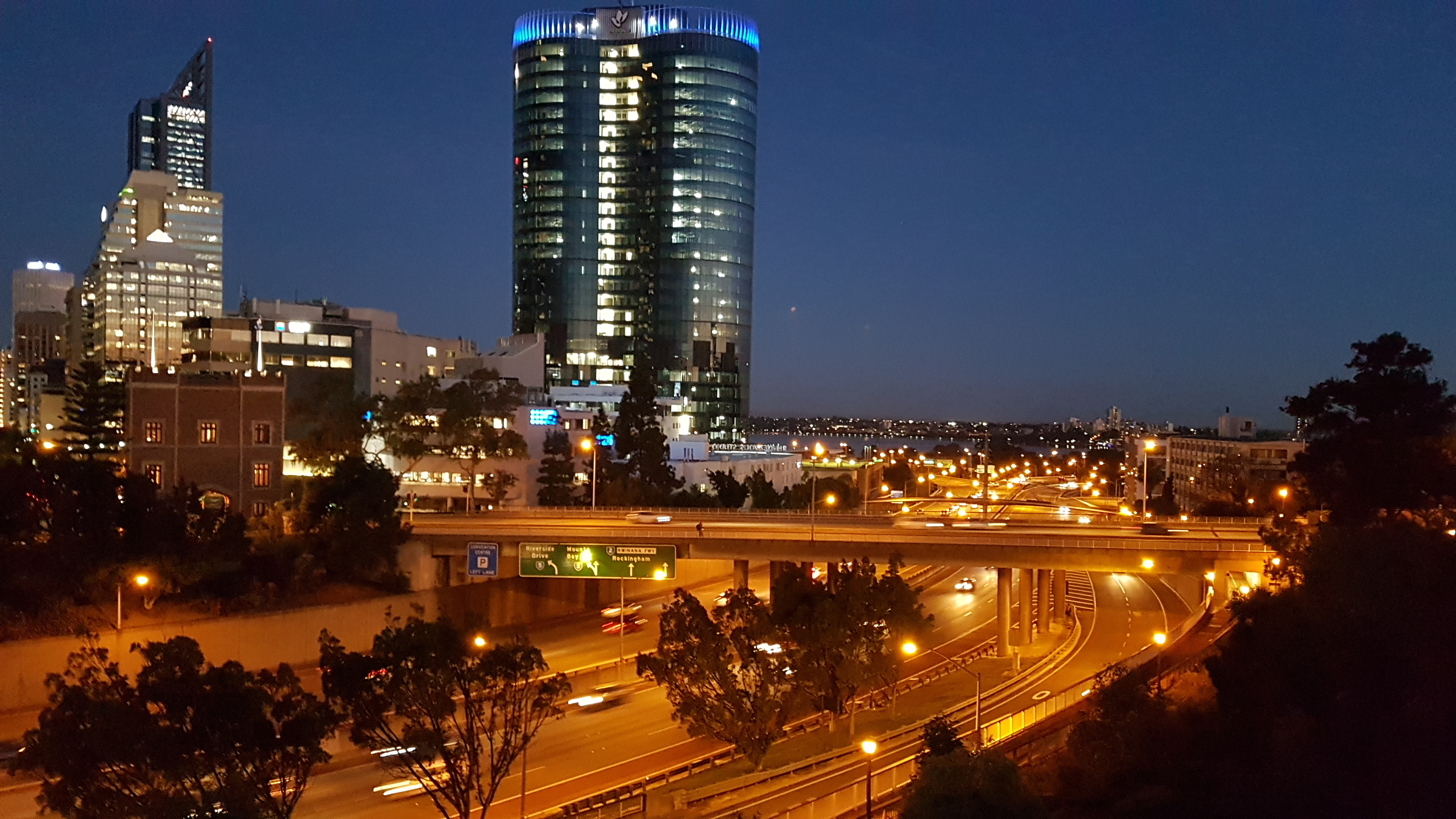 View from Parliament House carpark of the Mitchell Freeway, Perth, Western Australia, looking south.